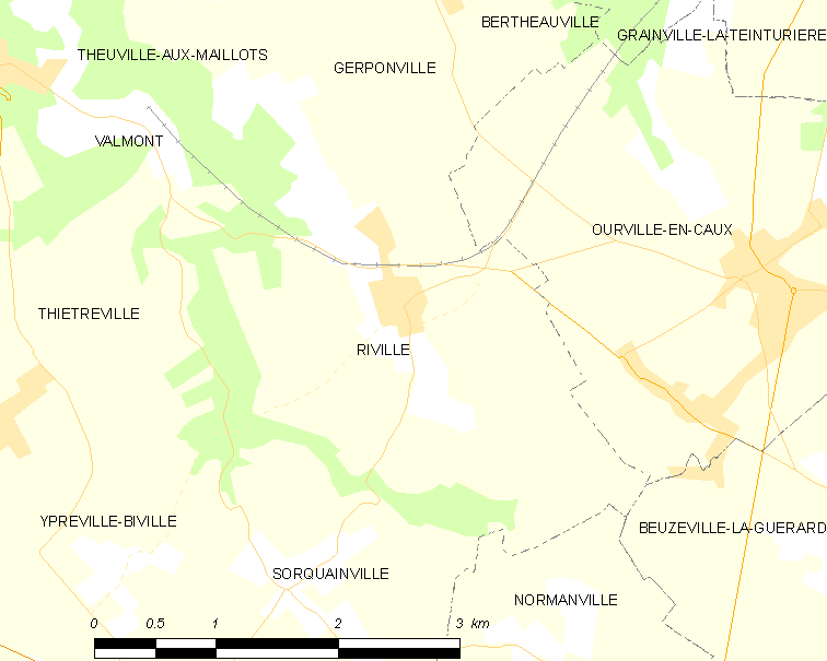 Map of French municipality Riville